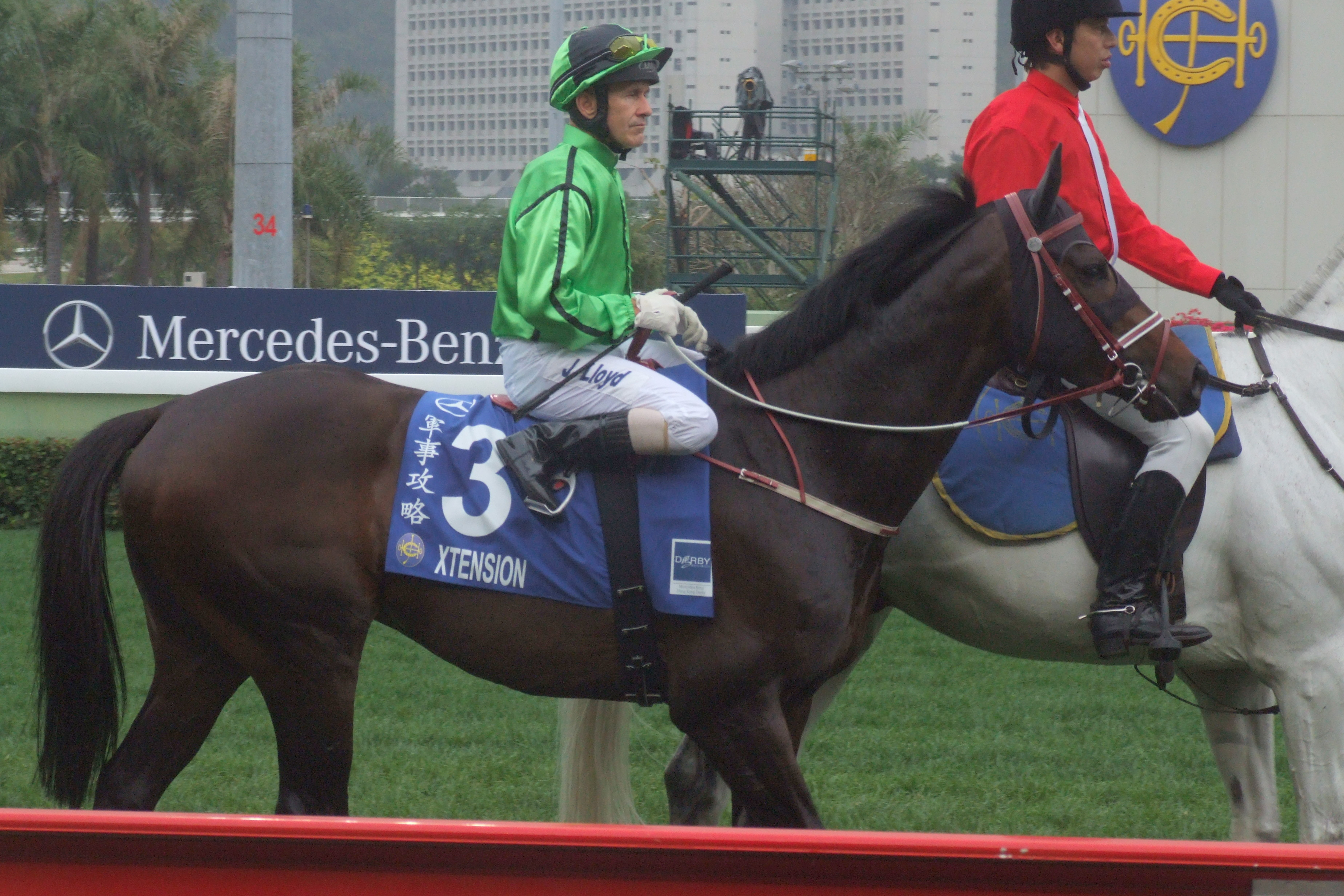 Xtension starts at Hong Kong Derby